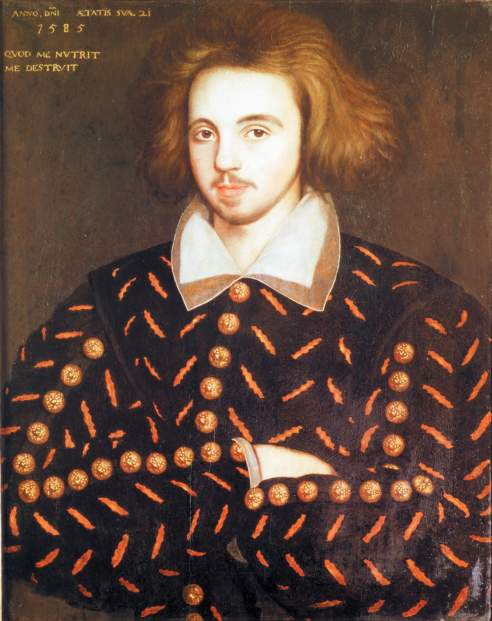 A portrait, supposedly of Christopher Marlowe. There is in fact no evidence that the anonymous sitter is Marlowe, but the clues do point in that direction. Marlowe was 21 years old in 1585, when the painting was made. He was also the only 21-year old student at Corpus Christi, where the painting was later found.[1]